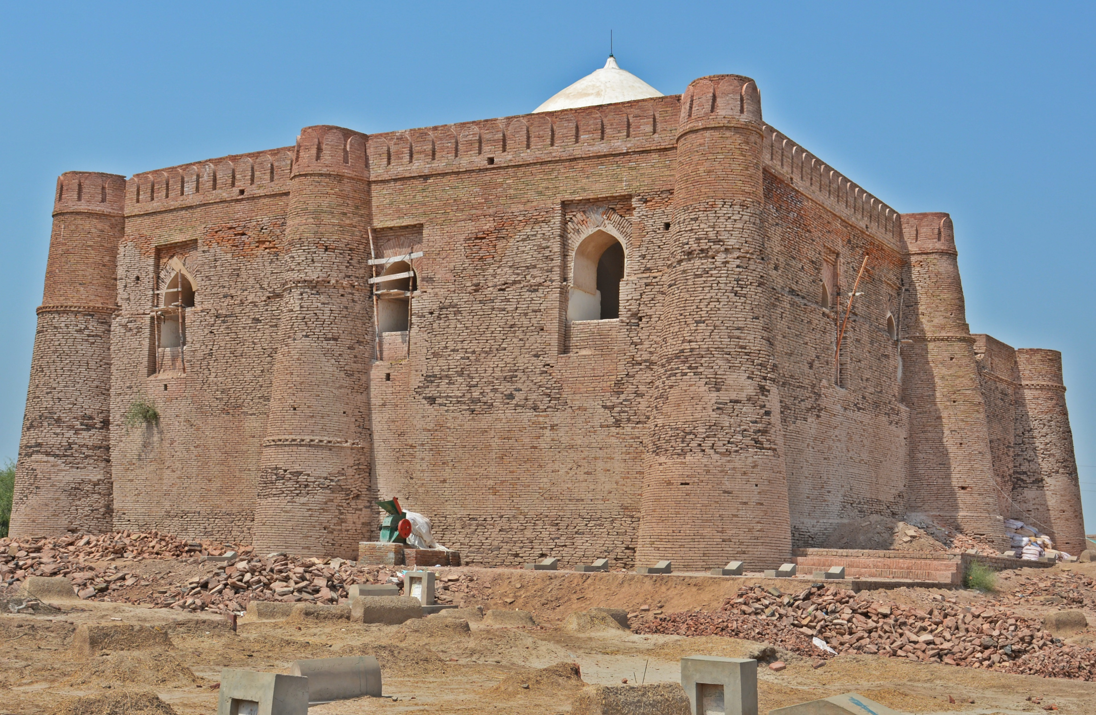 Shrine of Khalid Walid This is a photo of a monument in Pakistan identified as the PB-40